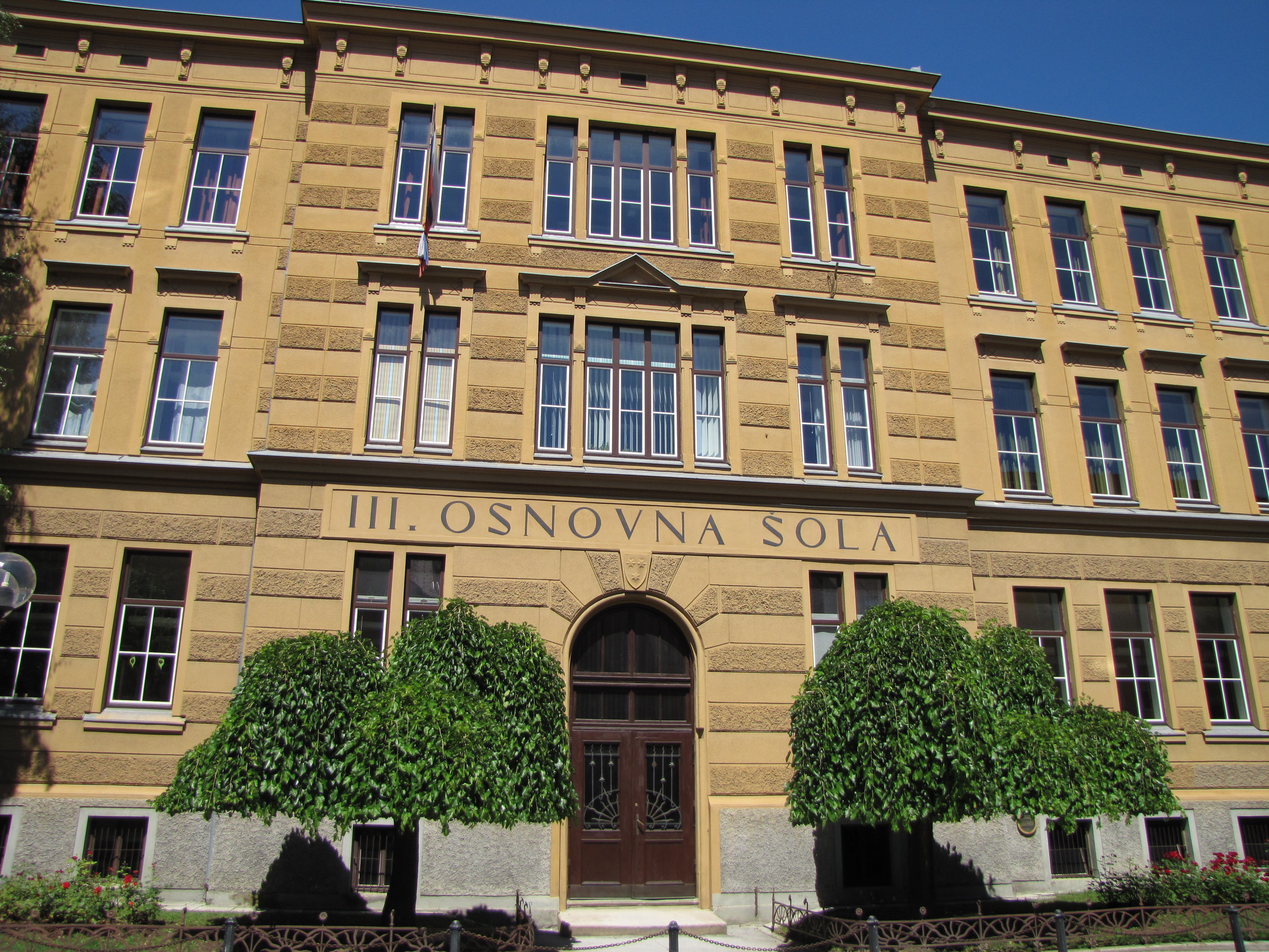 IIIrd Elementary School Celje.